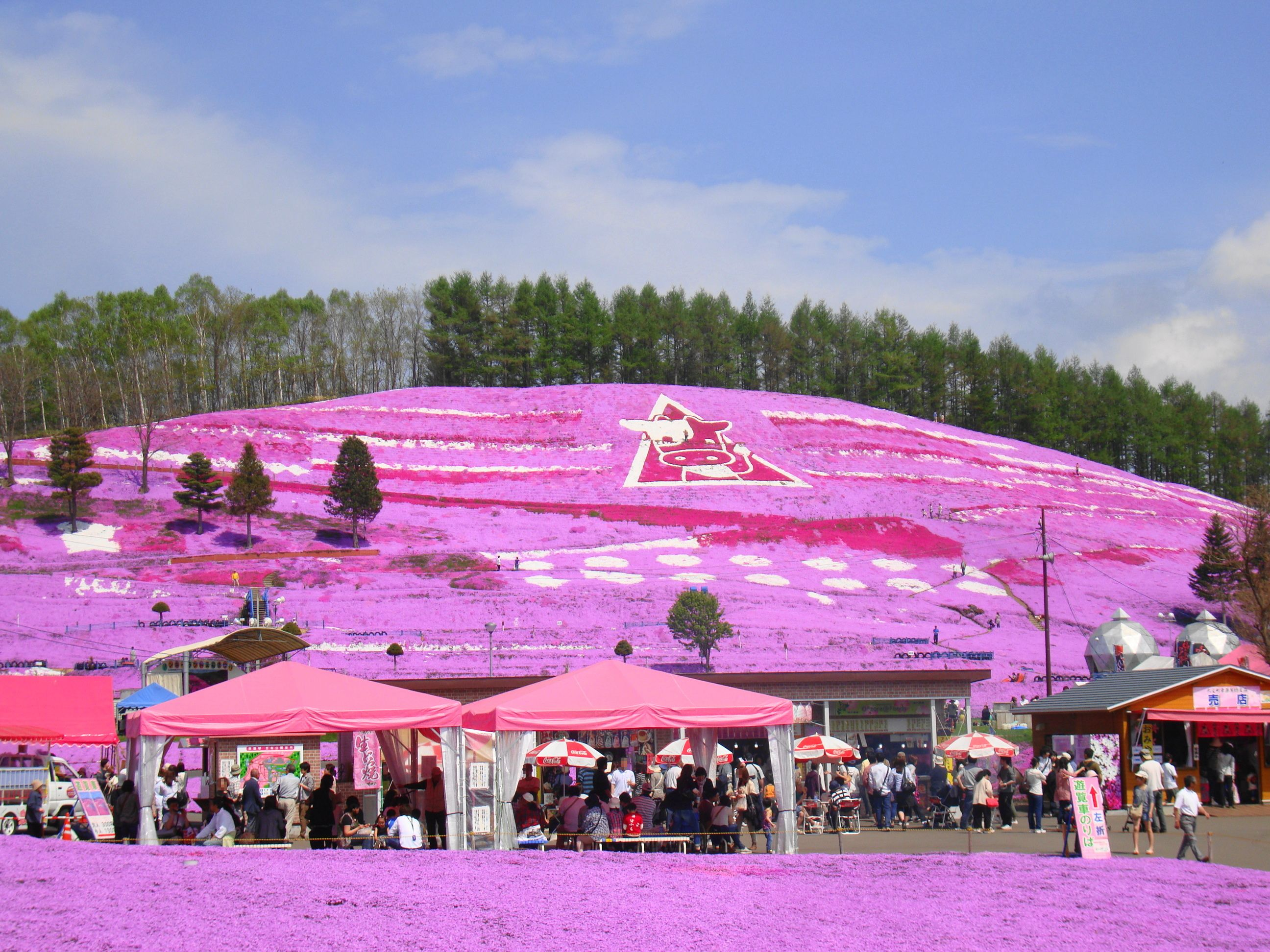 Phlox subulata in Higashi-Mokoto, Ōzora, Hokkaidō, Japan.